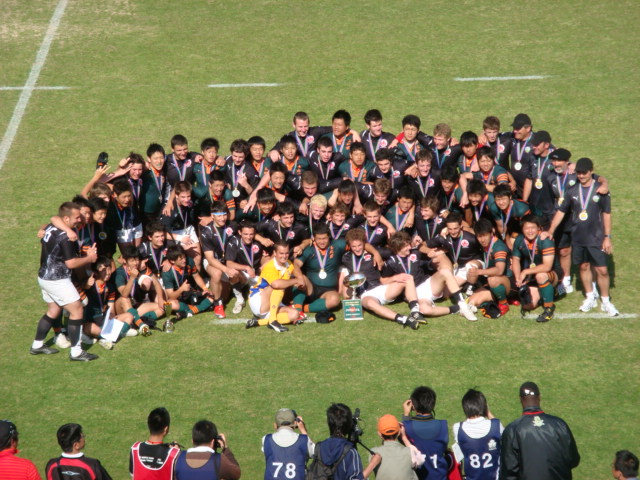 Dax Landes High School was the 10th Sanix World Rugby Youth Invitational Tournament 2009 champions - the first French team to win the tournament. It was played at Global Arena in Munakata city, Fukuoka prefecture, Japan. The final was played on May 6, 2009. This photograph shows the Dax Landes team and the third-time runners-up from the local Higashi Fukuoka High School together with one of the match officials enjoying the 'No Side' rugby tradition after the game. (Note: The GW in the file title stands for Golden Week.)